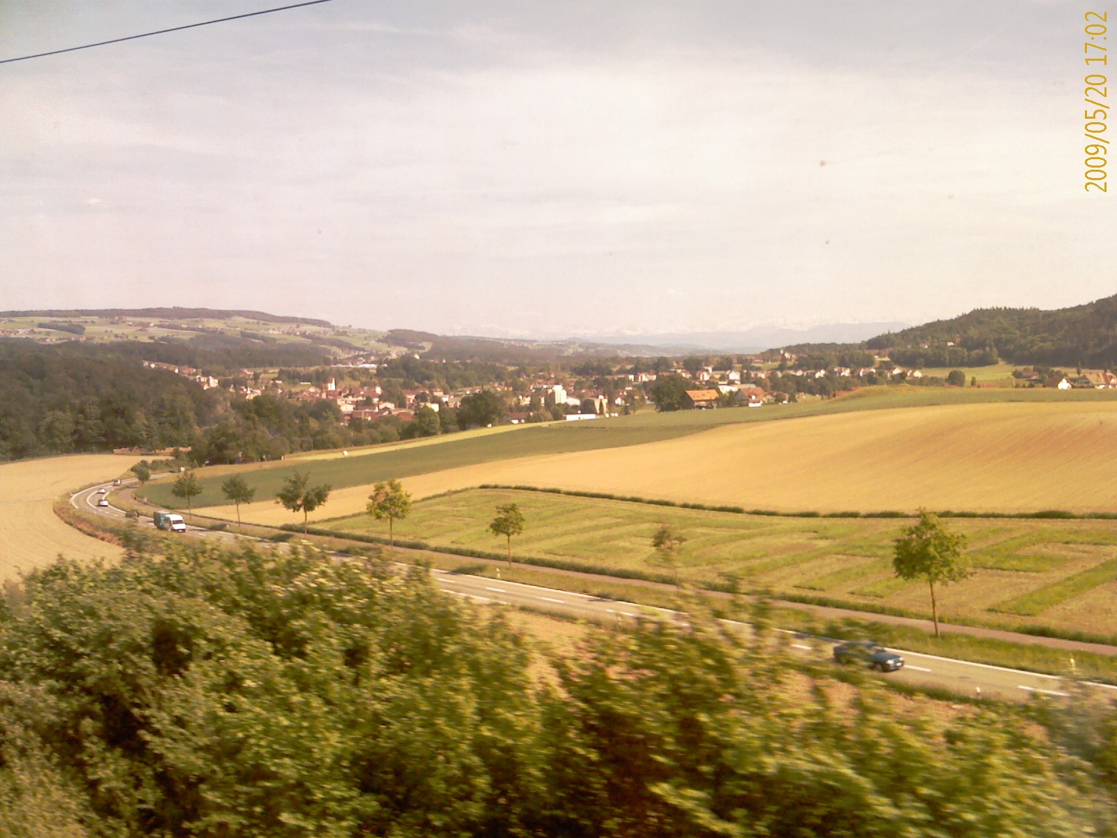 View from the train to Wohlenschwil and Mellingen, canton of Aargau, SwitzerlandEsperanto: Rigardo el la trajno al Wohlenschwil kaj Mellingen, Kantono Argovio, Svislando